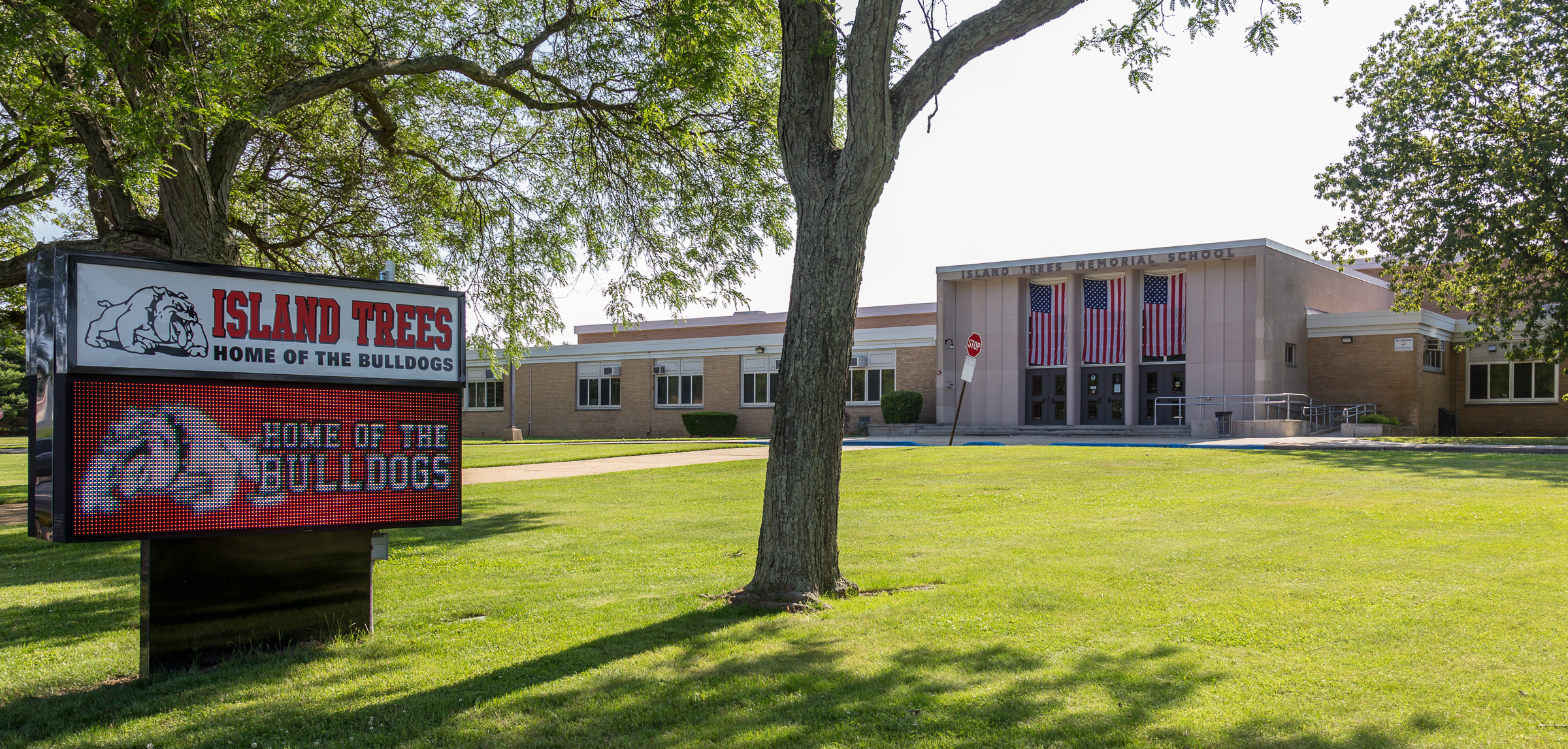 Island Trees Memorial School, the middle school for the Island Trees district. Wantagh Avenue, Levittown, New York